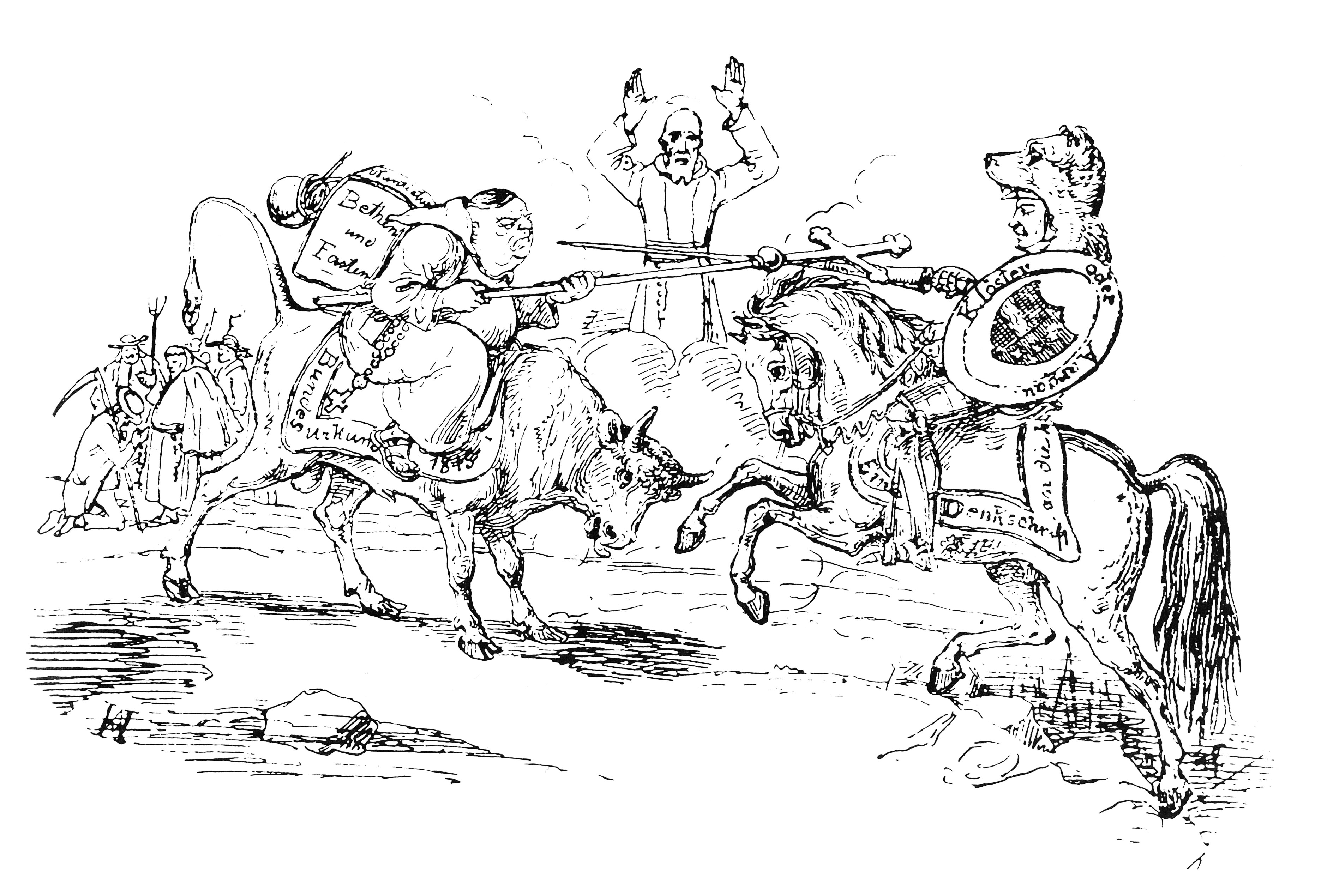 Heinrich von Arx (Signature left):Liberals and Catholics fighting over the future of monasteries in Aargau; one of the issues that triggered the Sonderbund War in Switzerland 1847.